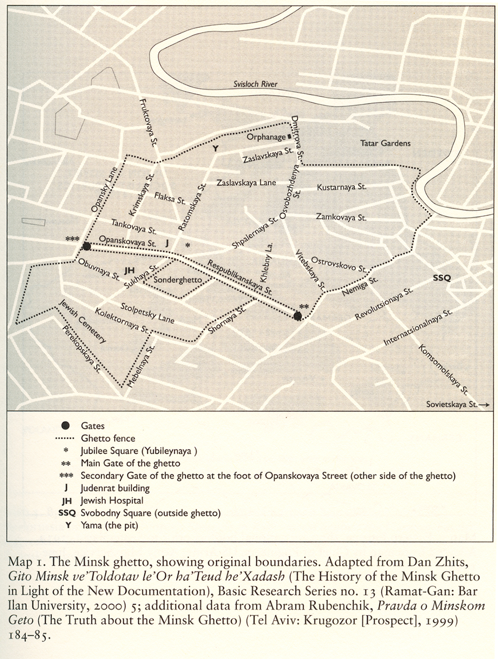 Map of the Minsk Ghetto. For more information, see Barbara Epstein, The Minsk Ghetto 1941-1943: Jewish Resistance and Soviet Internationalism, University of California Press, 2008, ISBN 978-0-520-24242-5